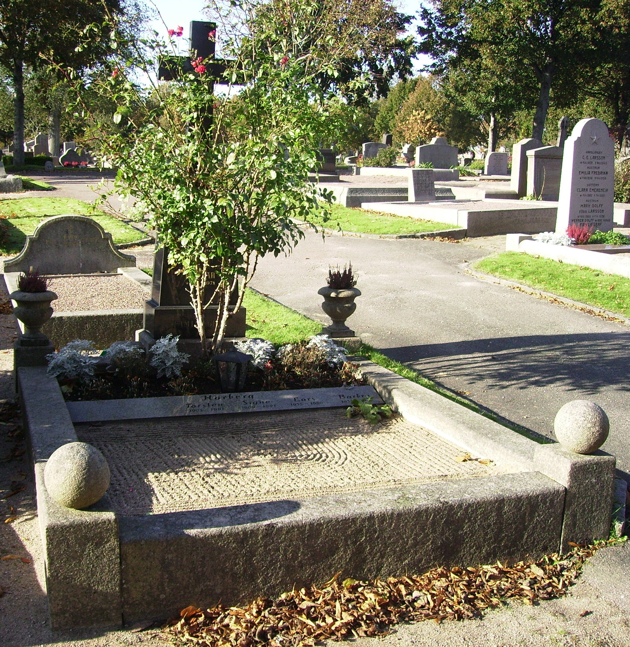 Picture of Barbro Hörberg's grave at Östra kyrkogården in Göteborg